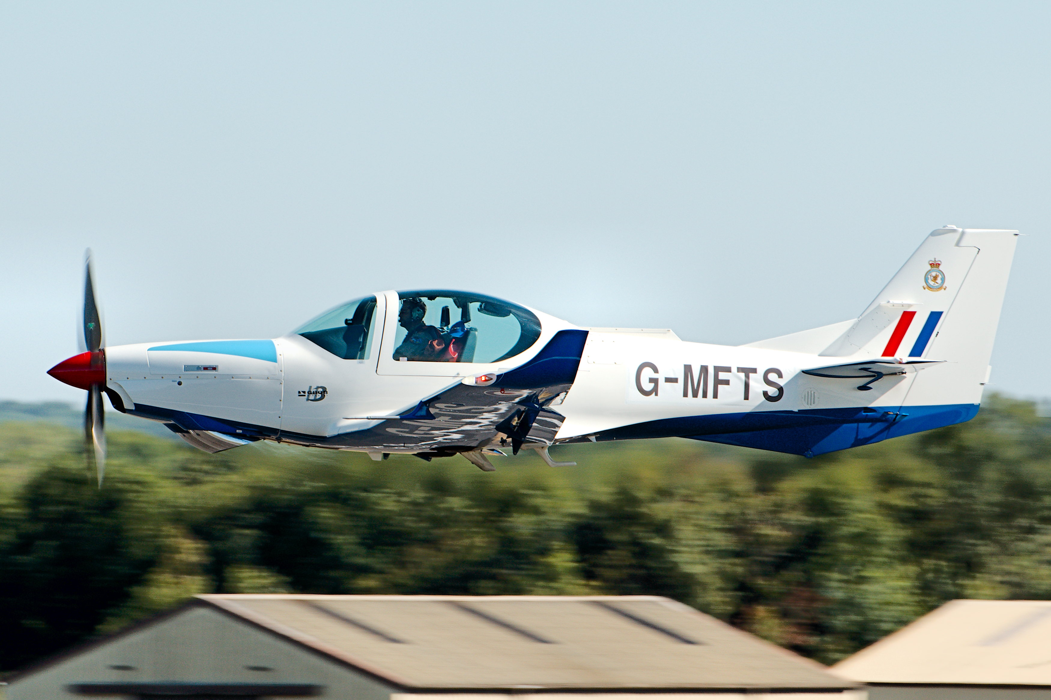 G120 Prefect - RIAT 2017